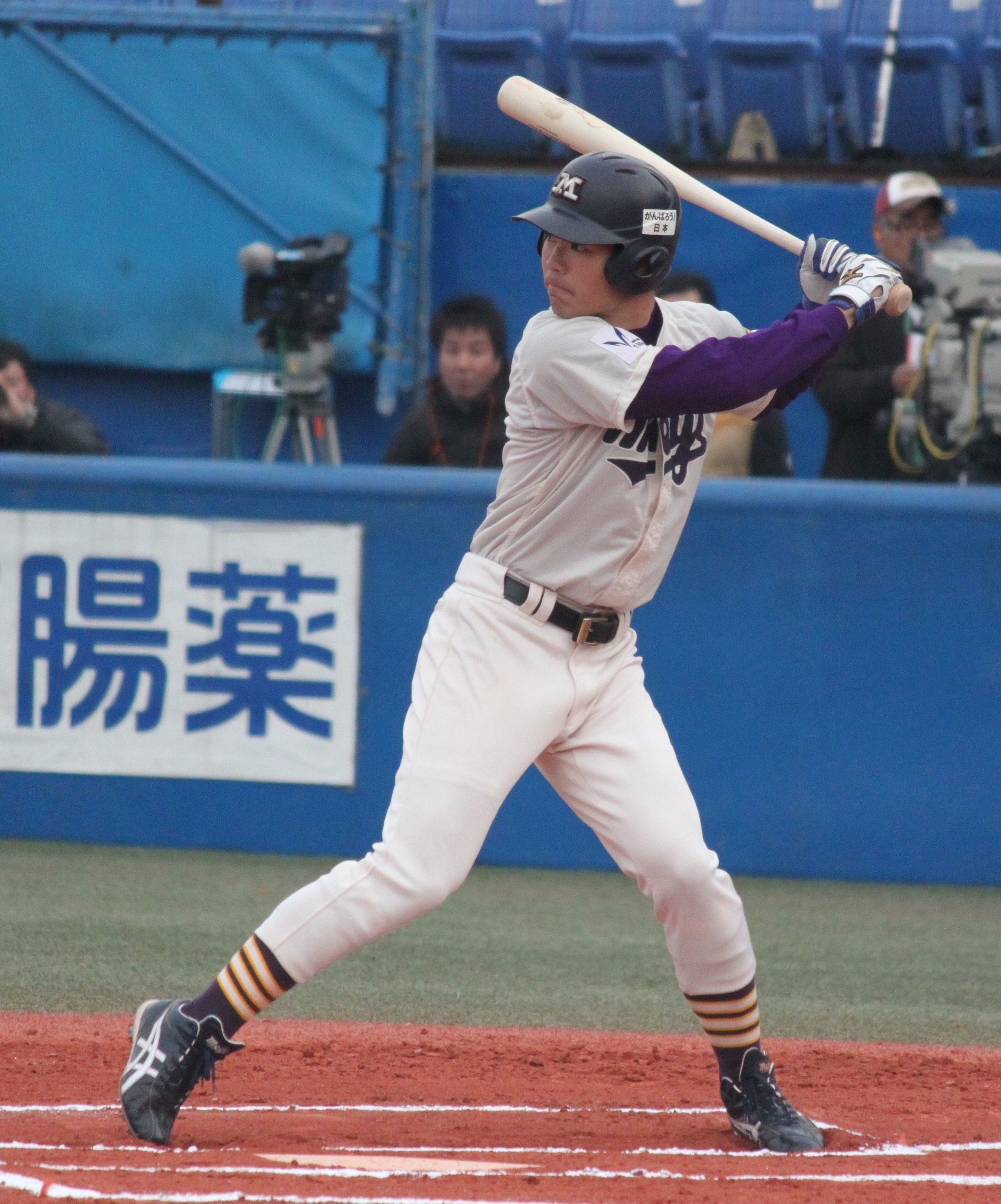 Hiroaki Shimauchi, outfielder of the Meiji University Baseball Club, at Meiji Jingu Stadium